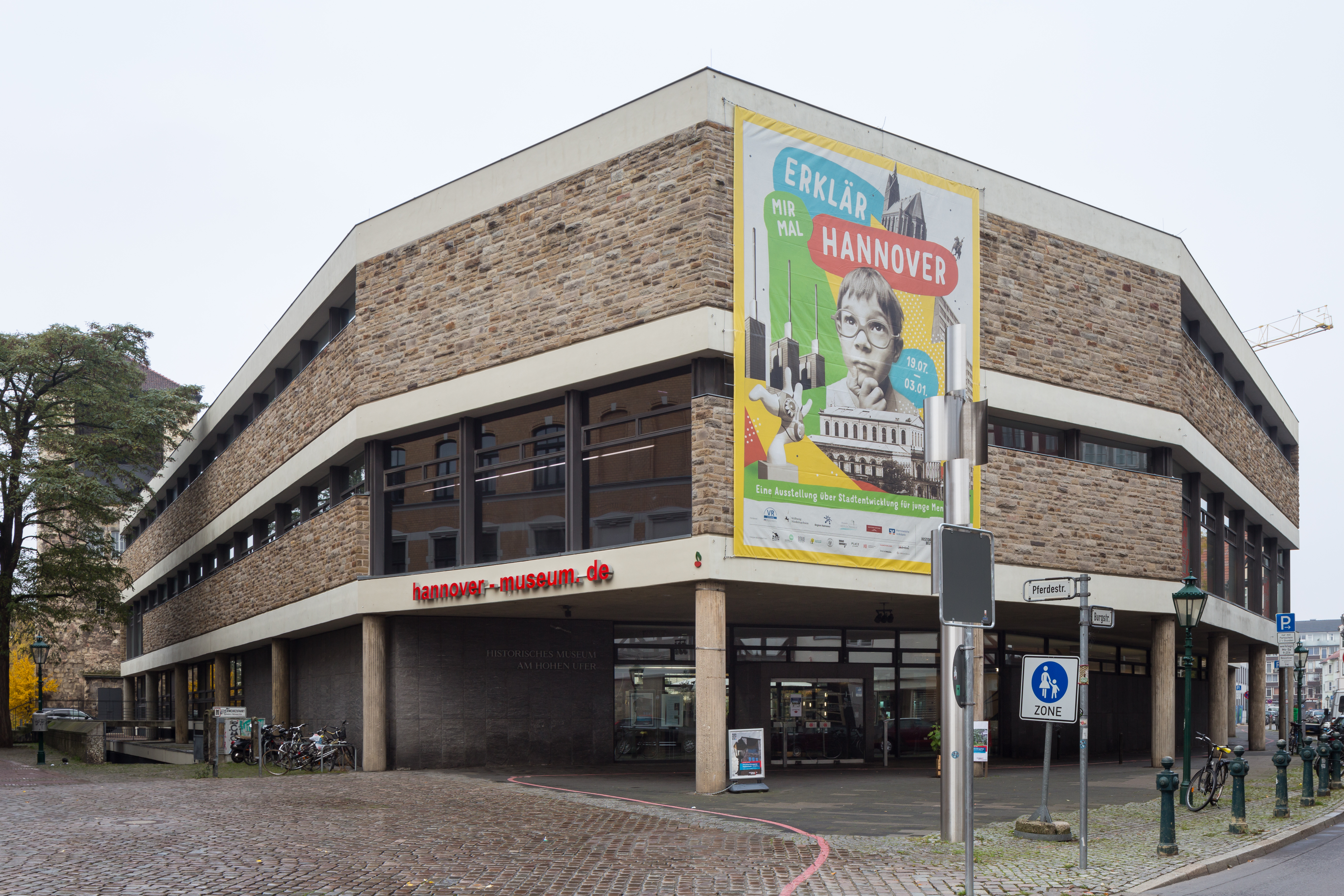 Museum for history Hannover located at Burgstrasse and Pferdestrasse in Mitte quarter of Hannover, Germany.